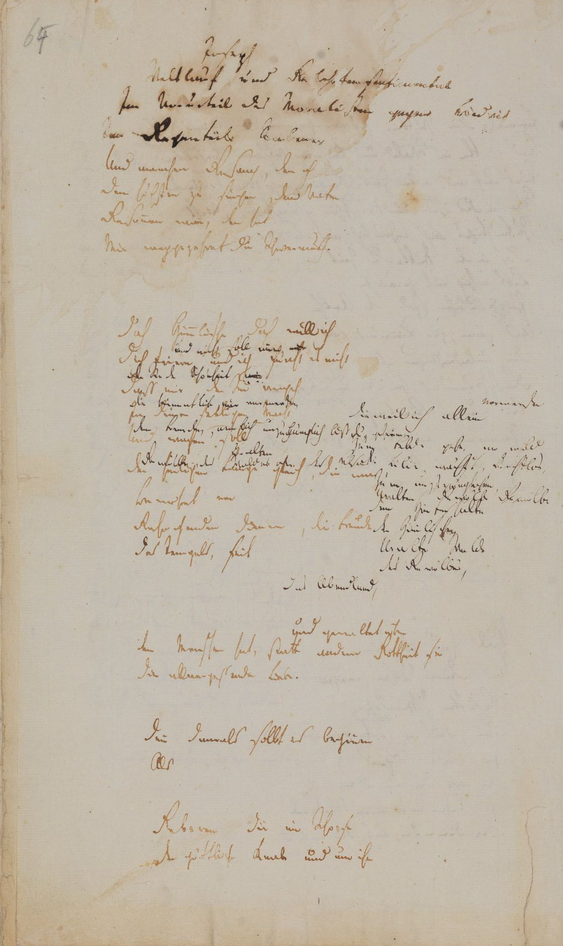 Manuscript by Friedrich Hölderlin "An die Madonna" page 2